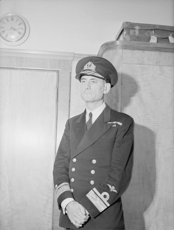 REAR ADMIRAL M S SLATTERY, 28 OCTOBER 1943, MINISTRY OF AIRCRAFT PRODUCTION. Rear Admiral M S Slattery, Commanding Naval Reserves.